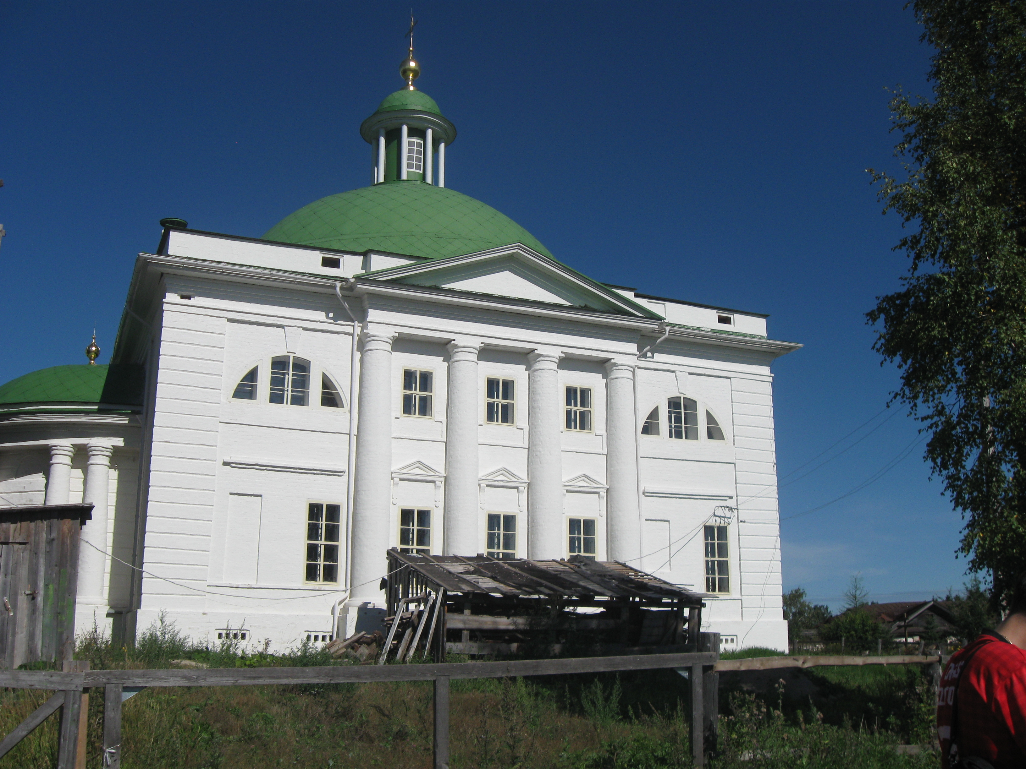 Trinity Church, Goritsy Monastery. The Resurrection Church is to the left.